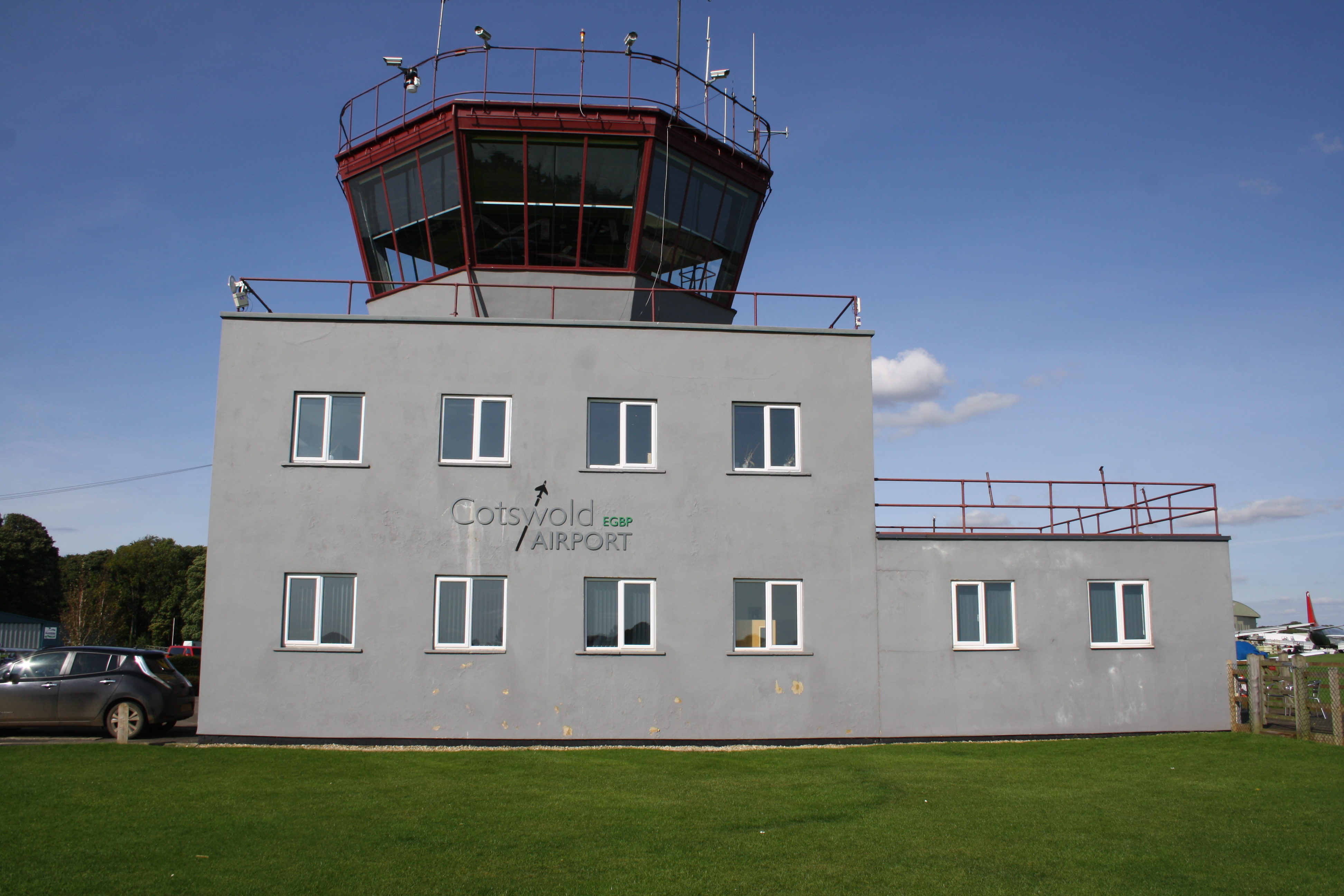 Photo of the control tower at Cotswold Airfield aka Kemble